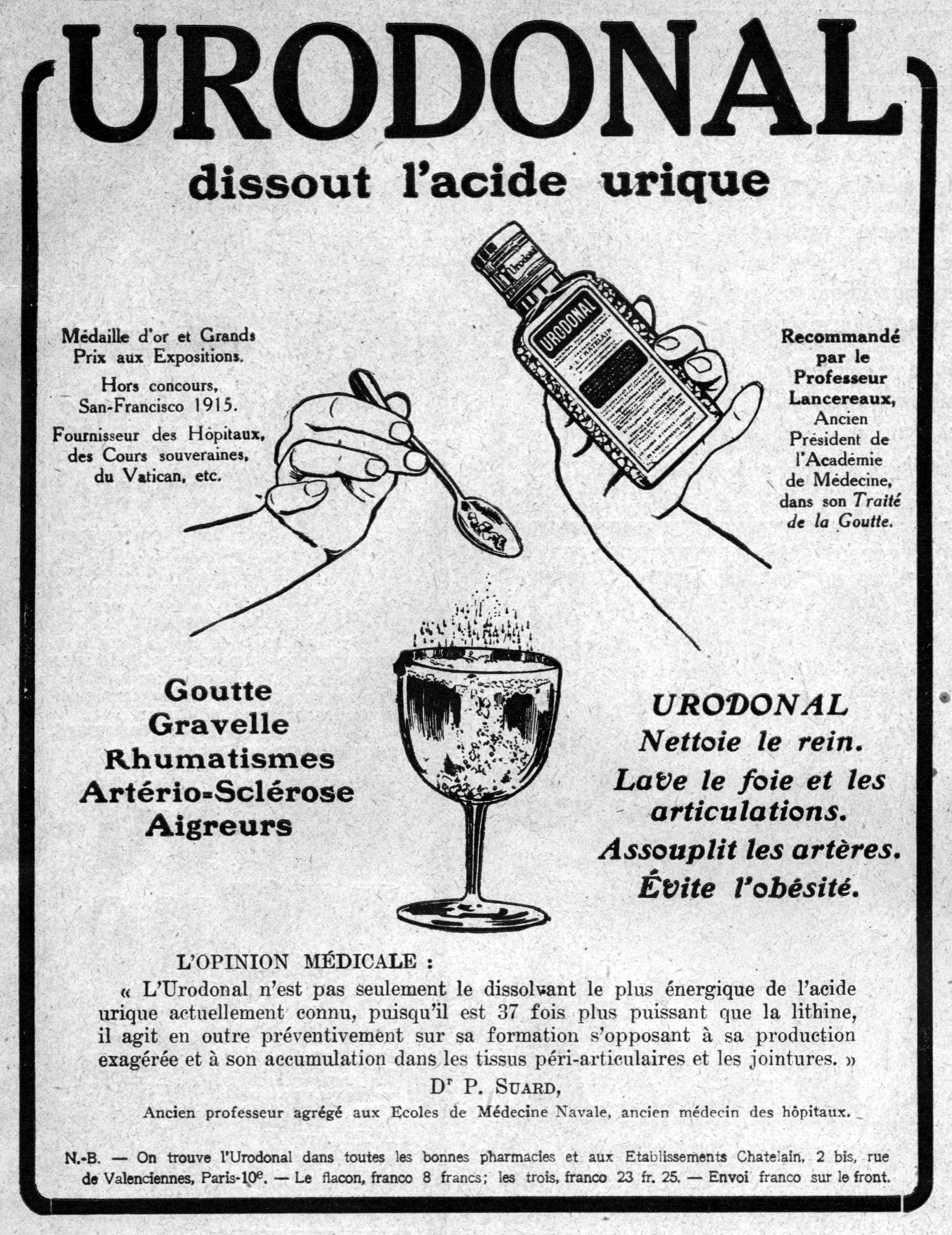 Scan of L'ILLUSTRATION No 3909 2 Février 1918. Urodonal, Annonces 1.